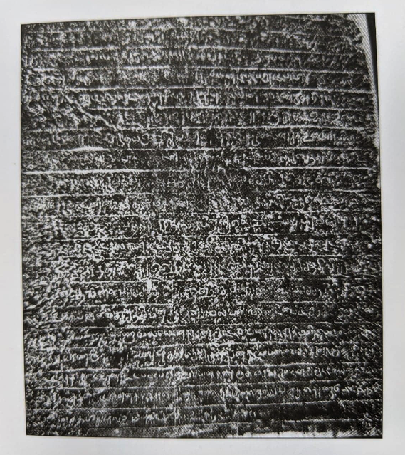 Padaviya Rajaraja I inscription